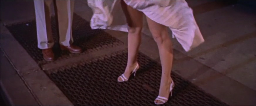 Marilyn Monroe's skirt blows upwards in the theatrical trailer of the 1955 film The Seven Year Itch directed by Billy Wilder.